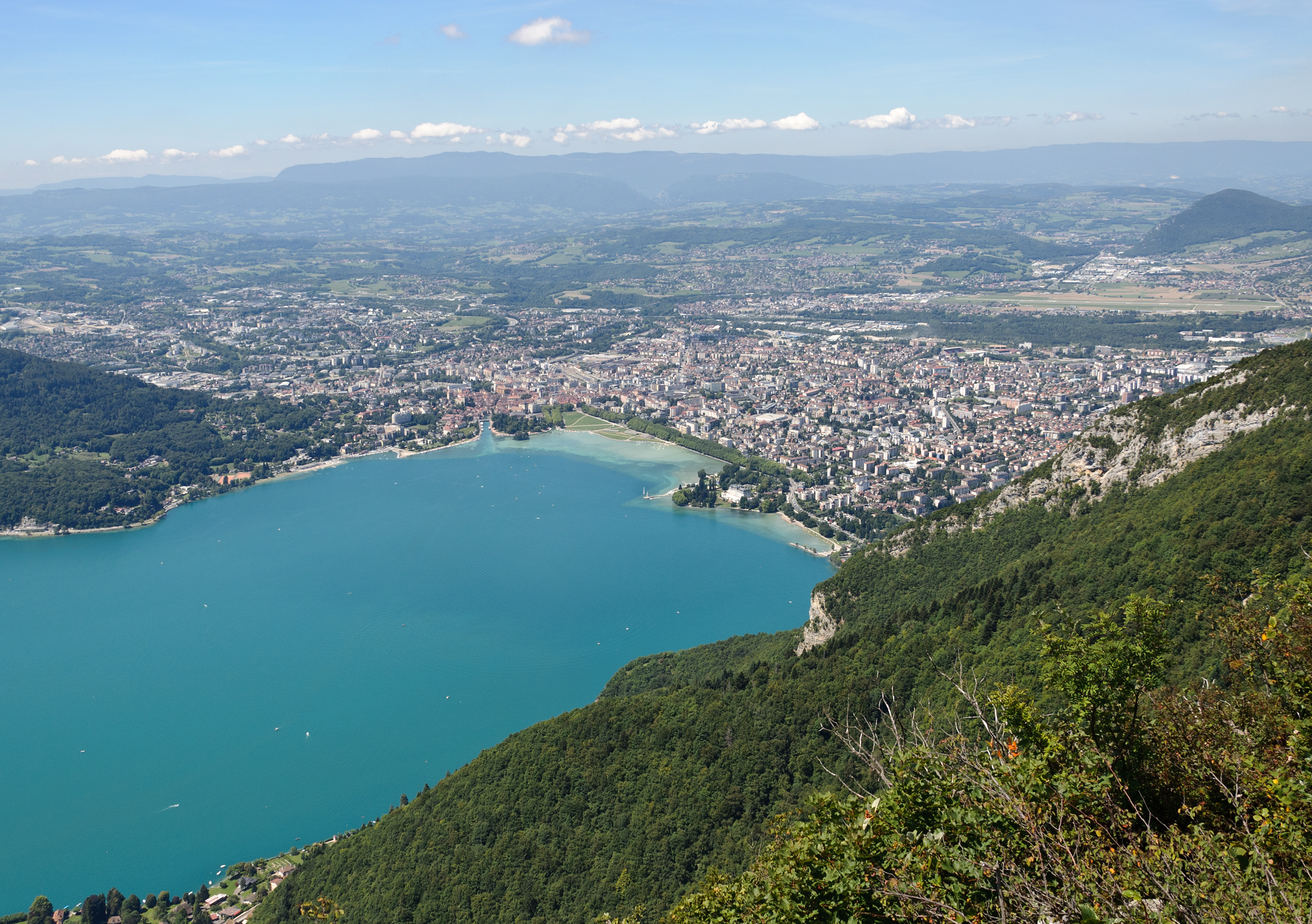 Annecy and Lake Annecy seen from Mount Veyrier, Haute-Savoie, France.